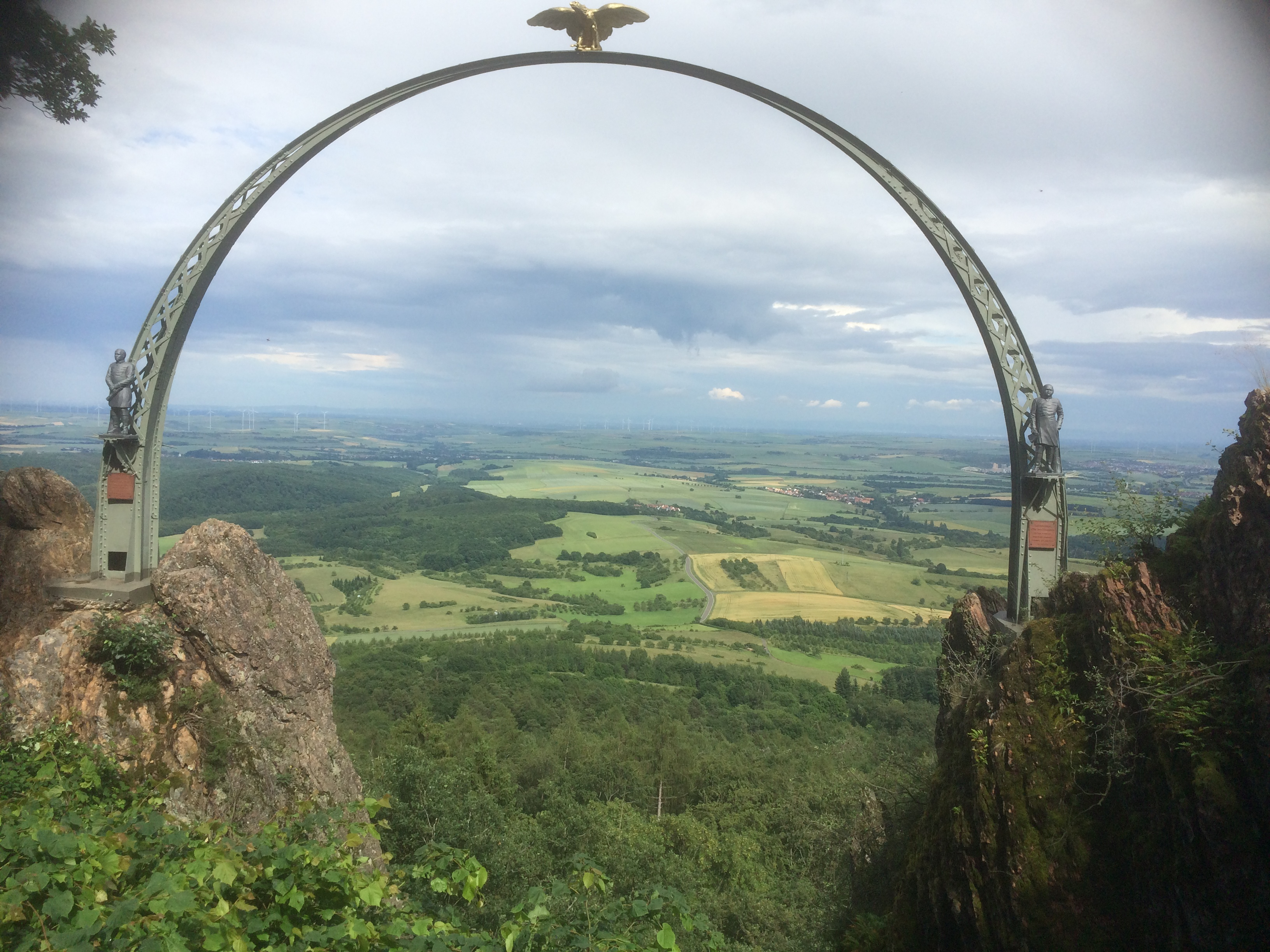 The new Eagle Arch over Dannenfels